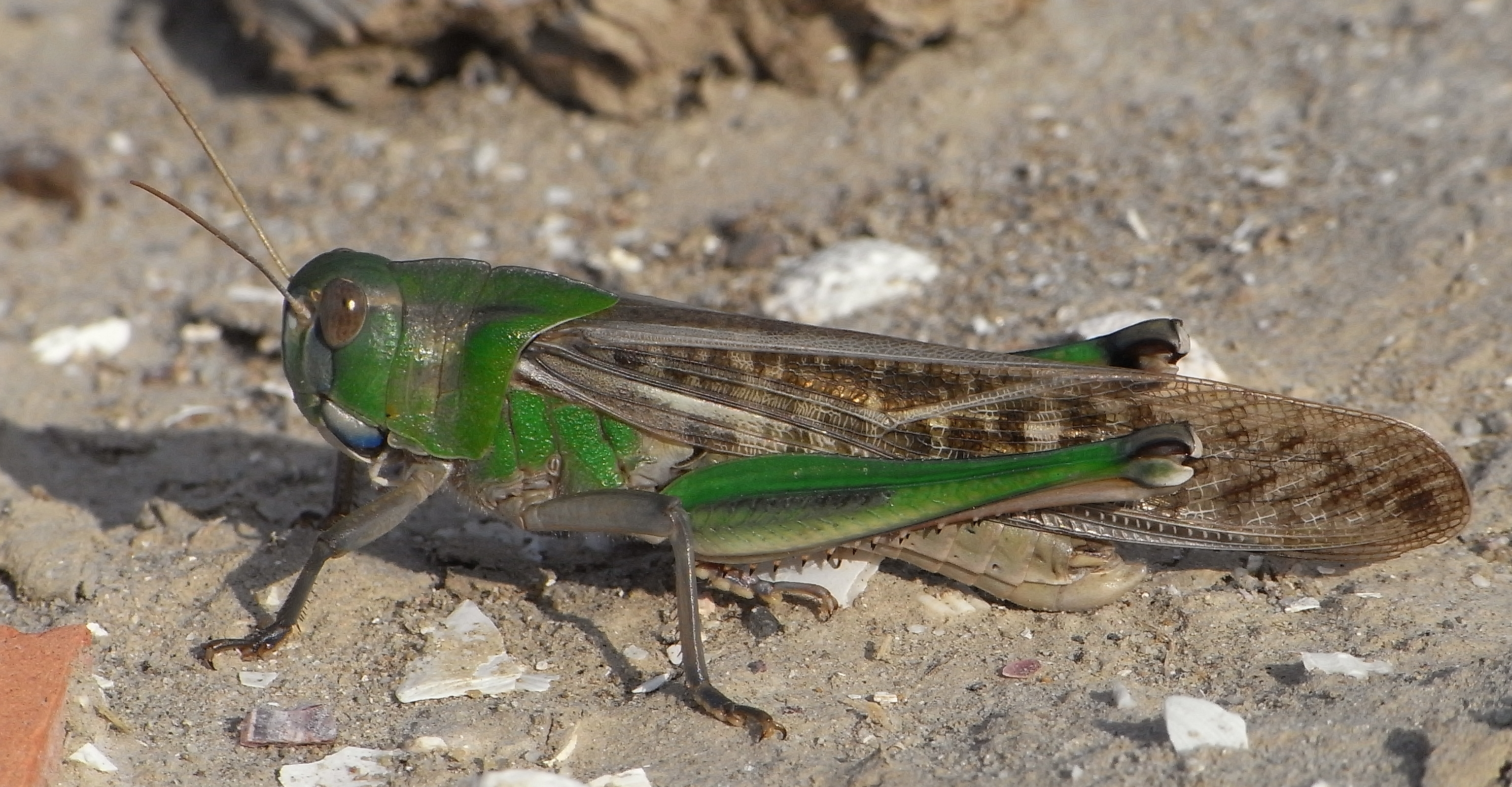 Locusta migratoria from Southern France on 2008-09-22 near GruissanRicoh R8